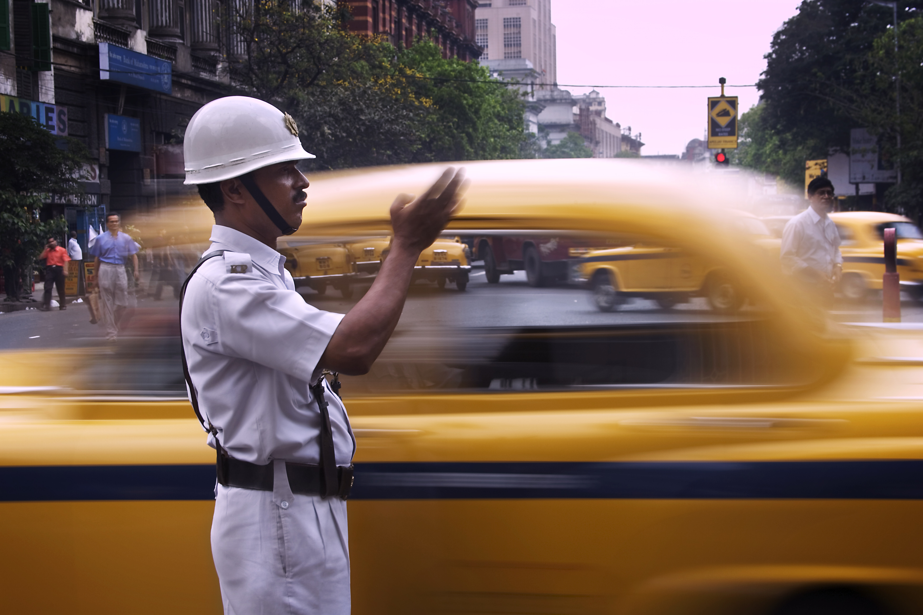 A constable traffic policeman directing taxis Calcutta Kolkata India